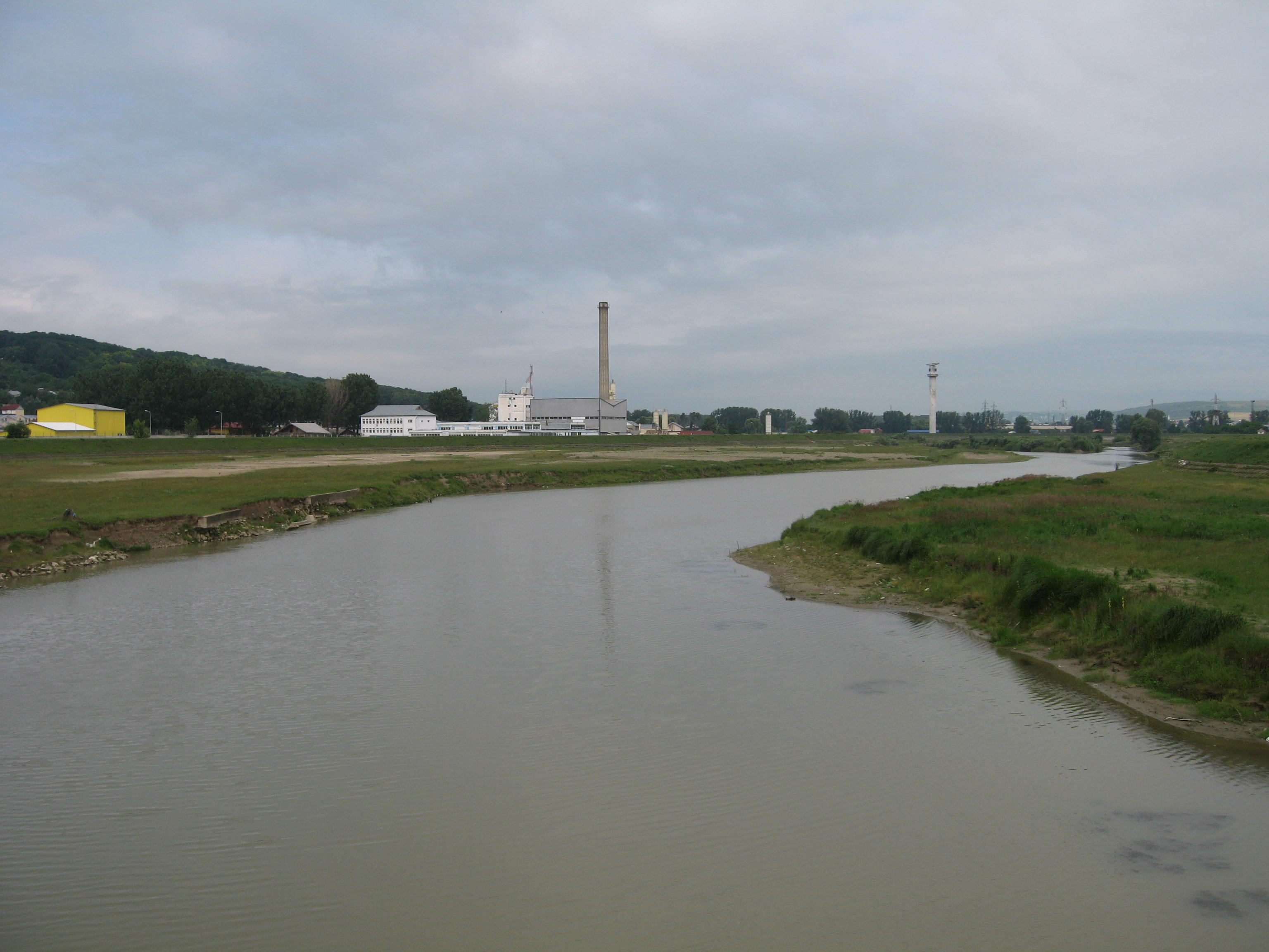 Suceava River.